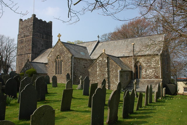 Clovelly church Clovelly church stands next to Clovelly Court on high ground above the picturesque village, it is dedicated to All Saints.